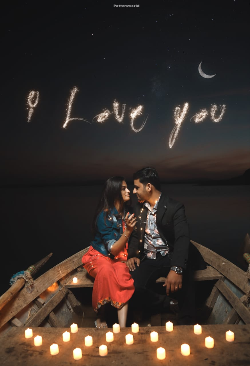 Pic showing how couple love fearlessly This photo has been taken in the country: India